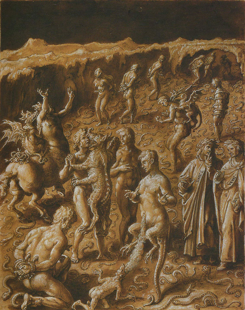 Illustration of Dante's Inferno, Canto 25